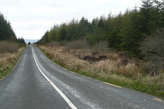 Loughaun forestry The R462 spends a few metres in the south-west corner of this square, which is mainly managed forestry operation.